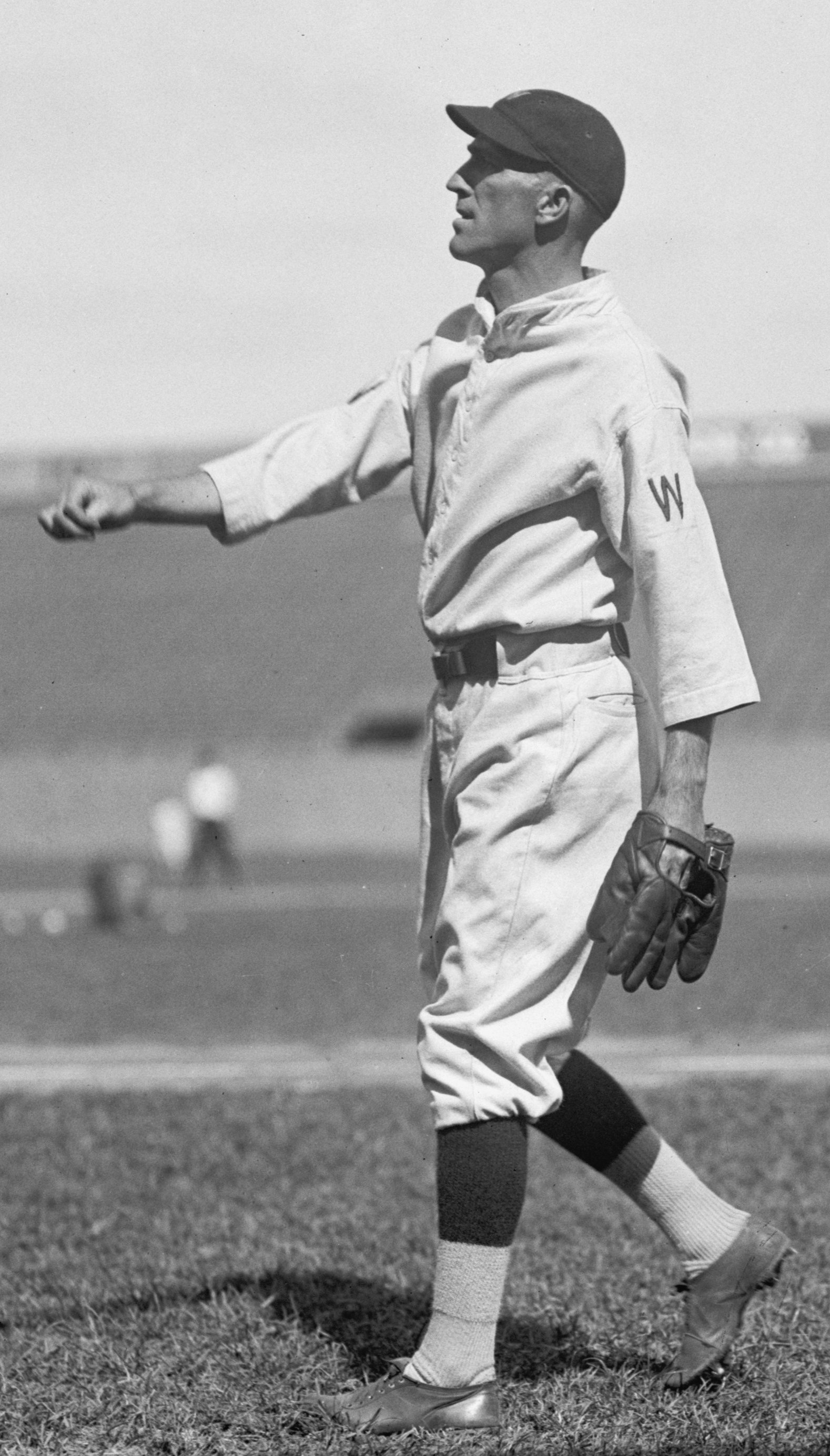 Title: Allen Russell Abstract/medium: National Photo Company Collection (Library of Congress) Physical description: 1 negative